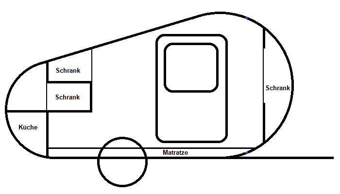 Teardop layout